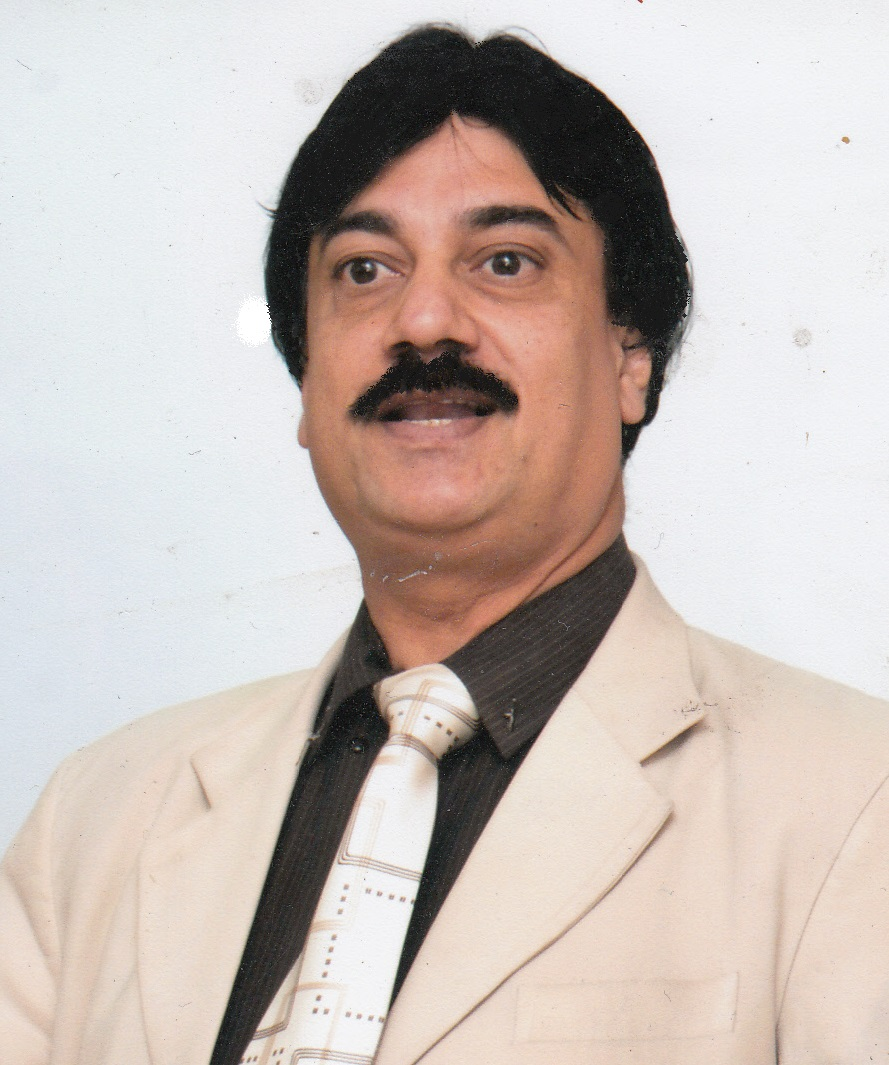 Rizvi delivering a lecture